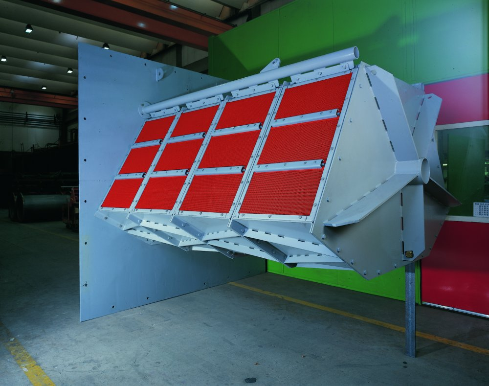 Air flushed filter with Tapis Design, for use in a power plant